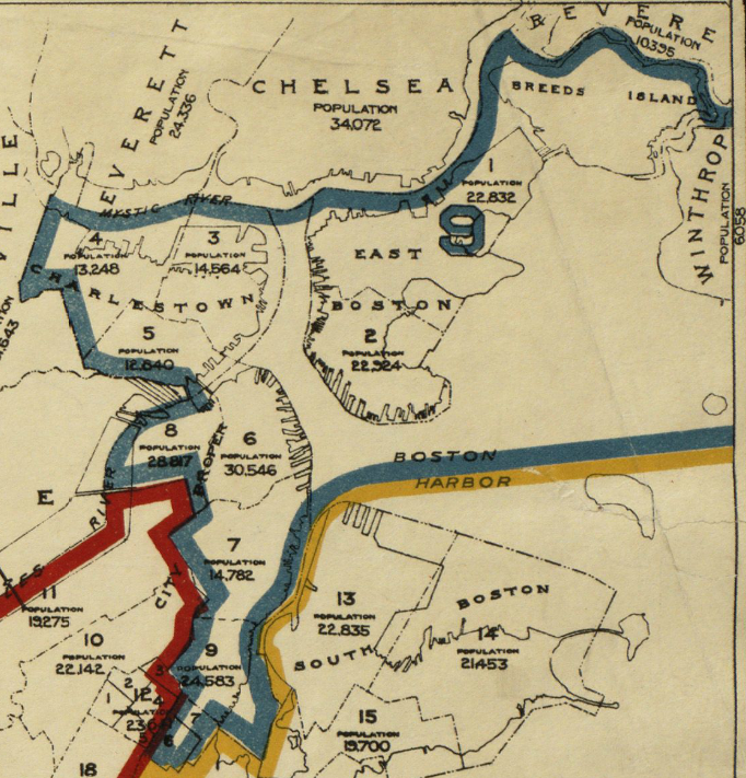 Detail of: Map of Massachusetts showing population according to United States Census of 1900 and congressional districts